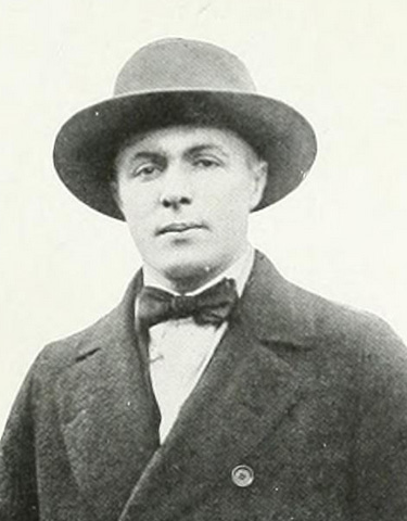 Coach Herbert Young